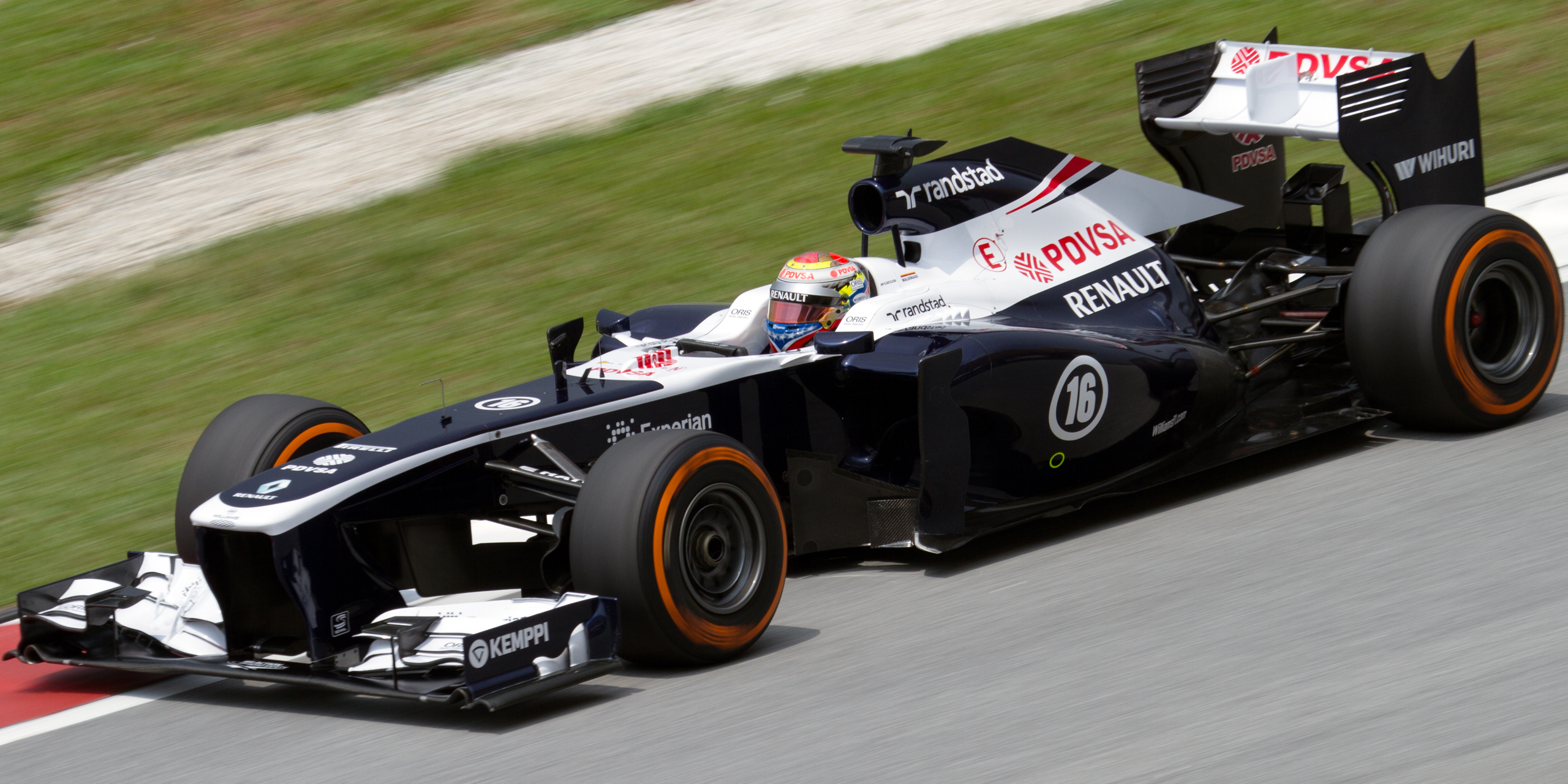 Formula One 2013 Rd.2 Malaysian GP: Pastor Maldonado (Williams) during the second practice session on Friday.